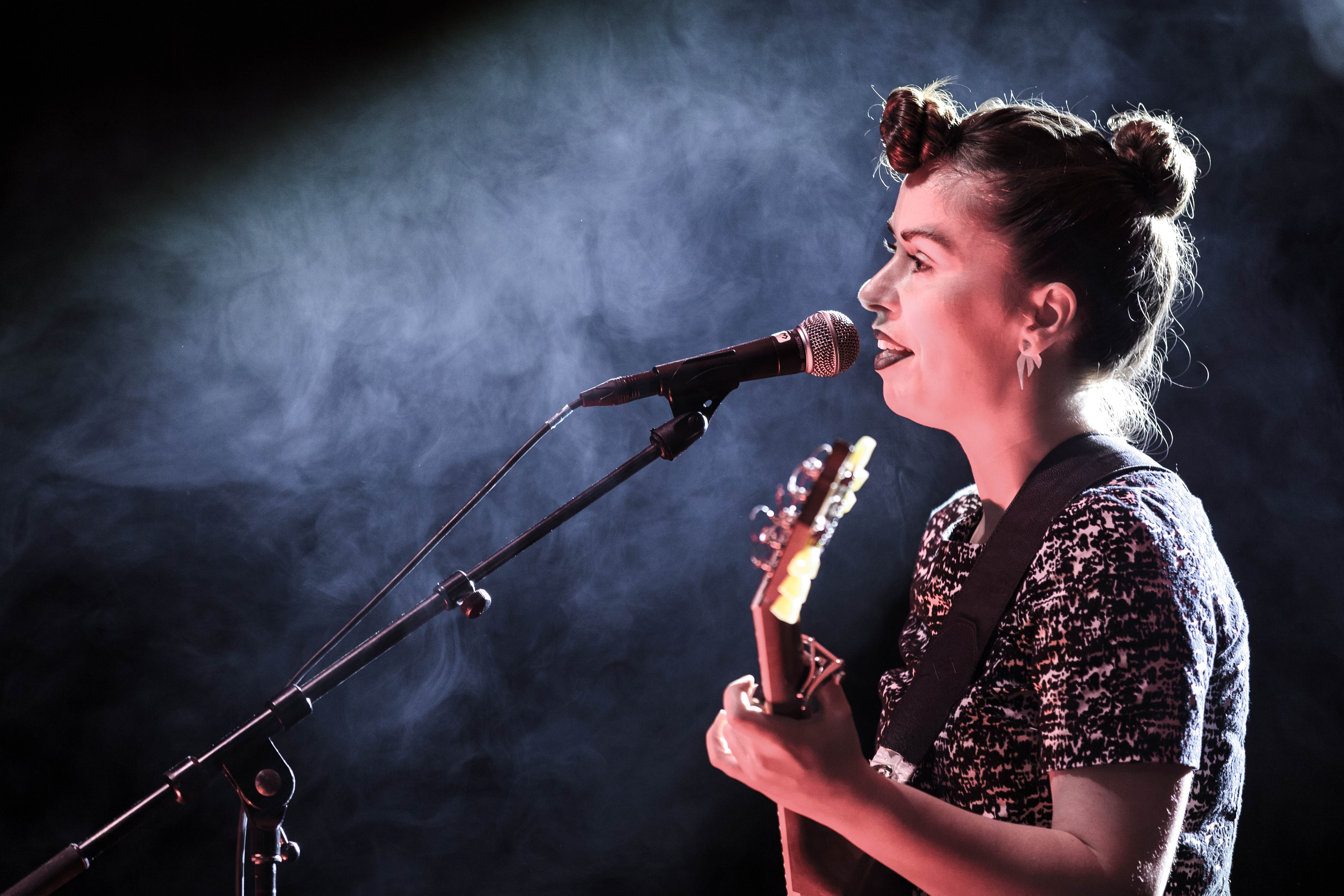 Danish Singer-Songwriter Ida Gard at Bochum Total (2016), Bochum, Bermuda3Eck (DEU) /// leokr.de for Wikimedia Commons